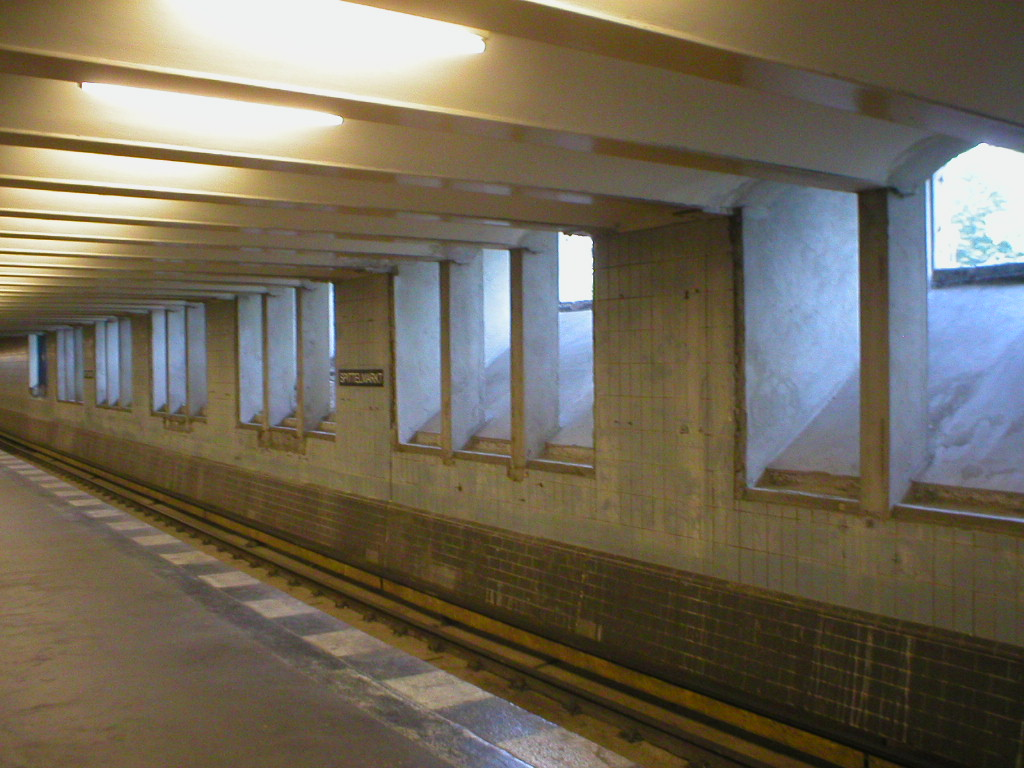 U-Bahn Berlin - window gallery at U-Bahn station Spittelmarkt (U2)